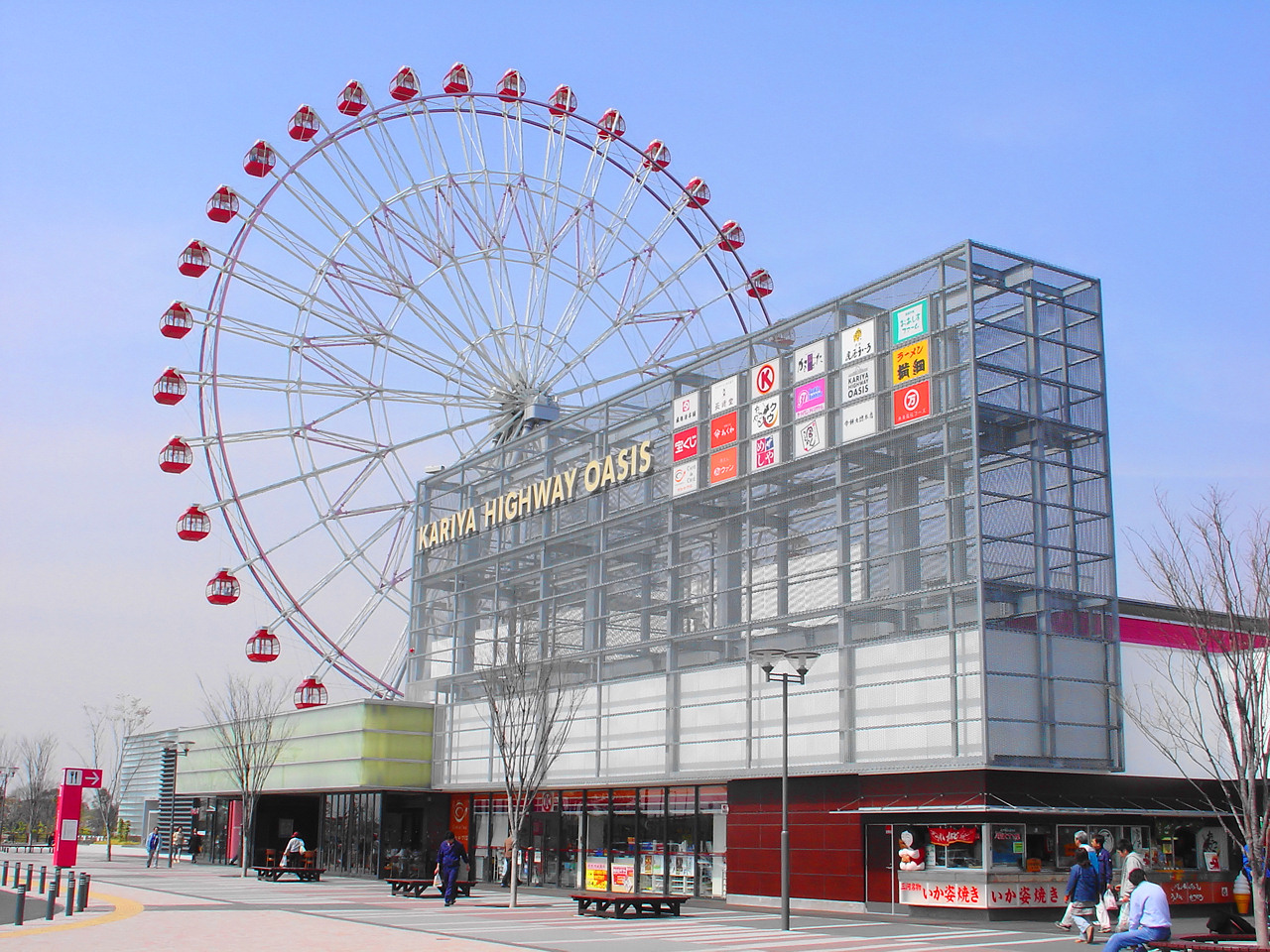 Kariya Parking Area on the Isewangan Expressway in Kariya City, Aichi Prefecture, Japan